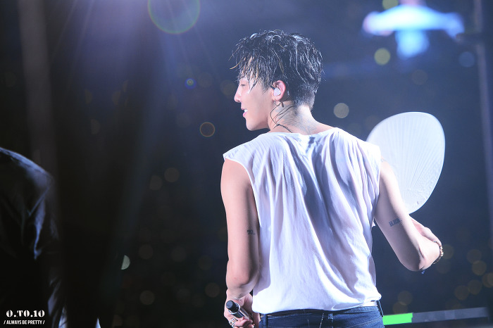 G-Dragon in Big Bang concert 0.To.10 in Seoul - August 20, 2016